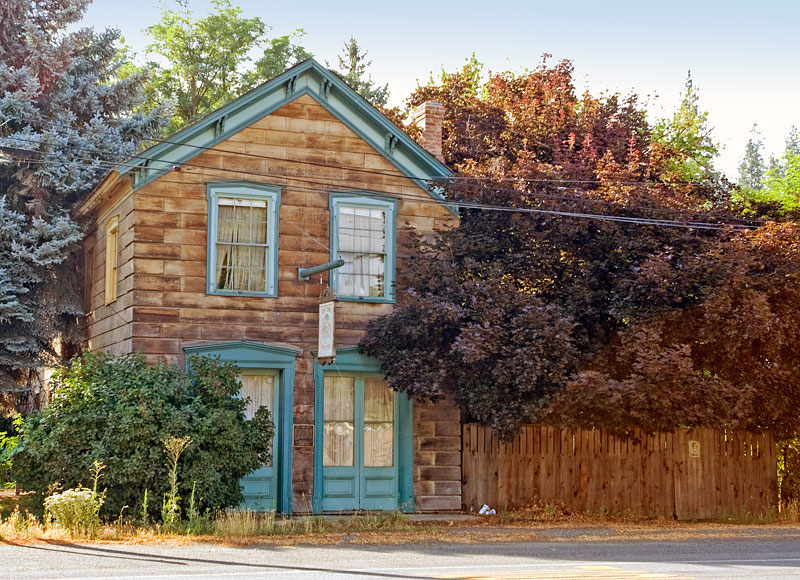 Fort Jones House on Main Street in Fort Jones, California